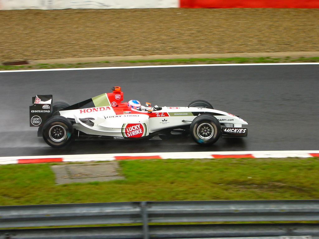 Jenson Button driving for British American Racing at the 2004 Belgian Grand Prix.